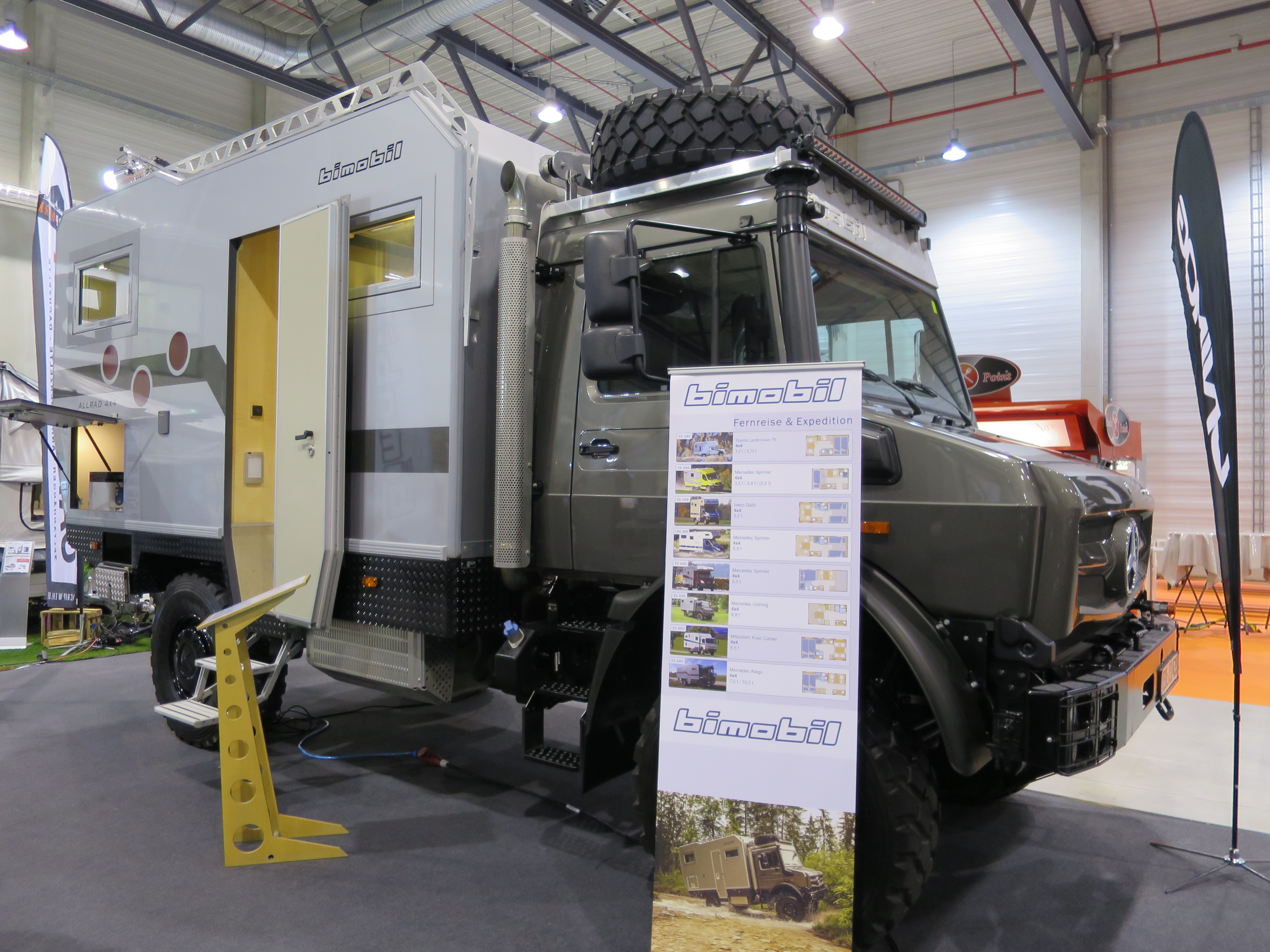 Bimobil Unimog.